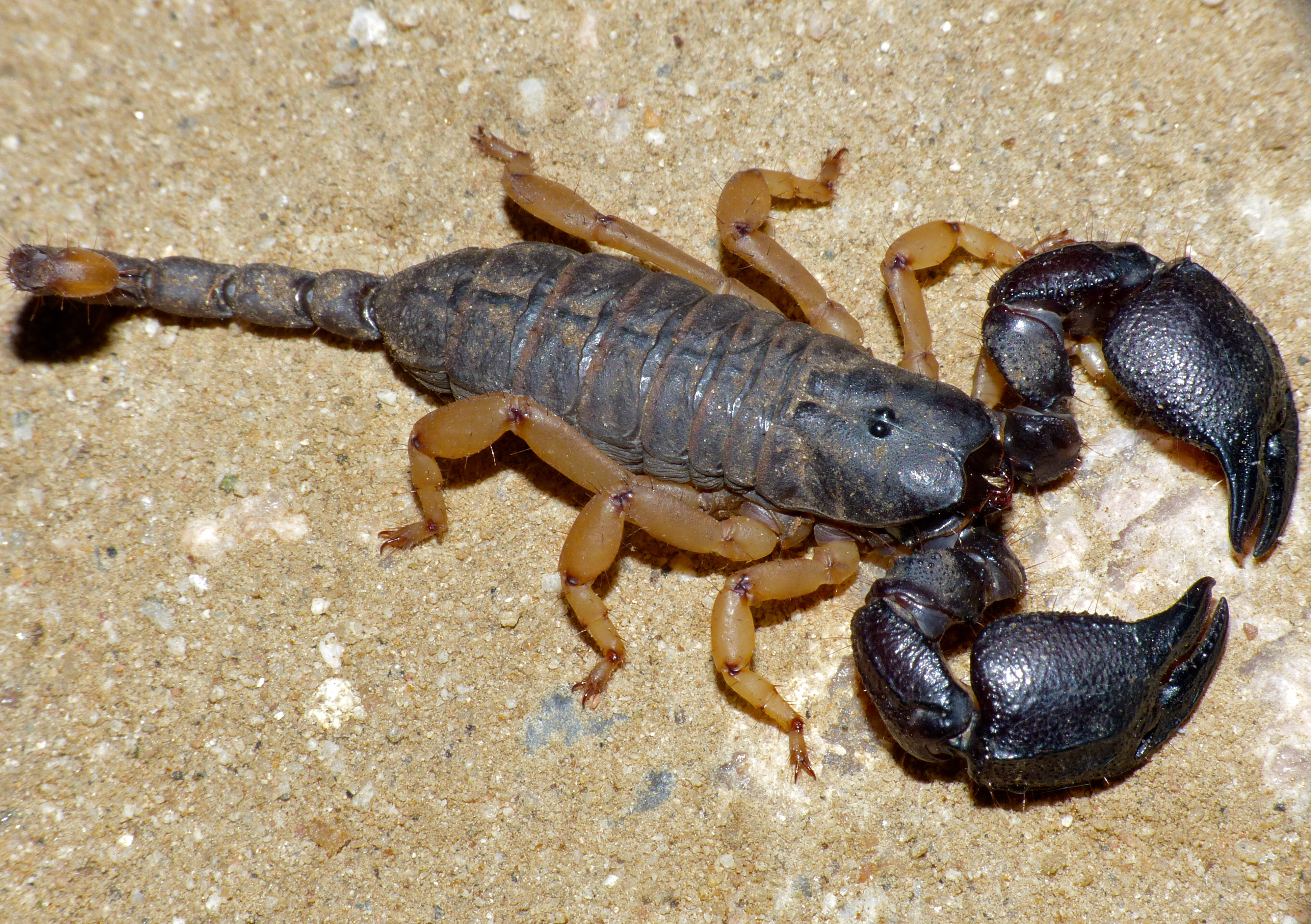 Tamboti Tented Camp, Kruger NP, SOUTH AFRICA